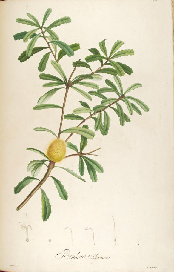 Reproduction of a plate in Description des plantes rares cultivées à Malmaison et à Navarre / par Aimé Bonpland. The title is given as BANKSIA marcescens. pl. 48 (Banksia marginata Cav., ) Note that this is not the same as Banksia marginata R.Br., which is a synonym of Banksia praemorsa. Banksia marcescens Bonpl. was published six years after Brown's name, and is therefore an illegitimate later homonym.